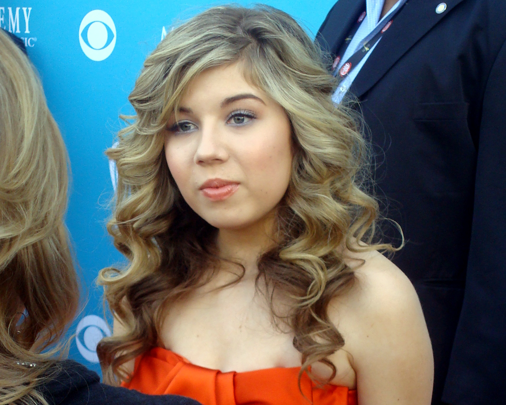 Jennette McCurdy at the 2010 Academy of Country Music Awards